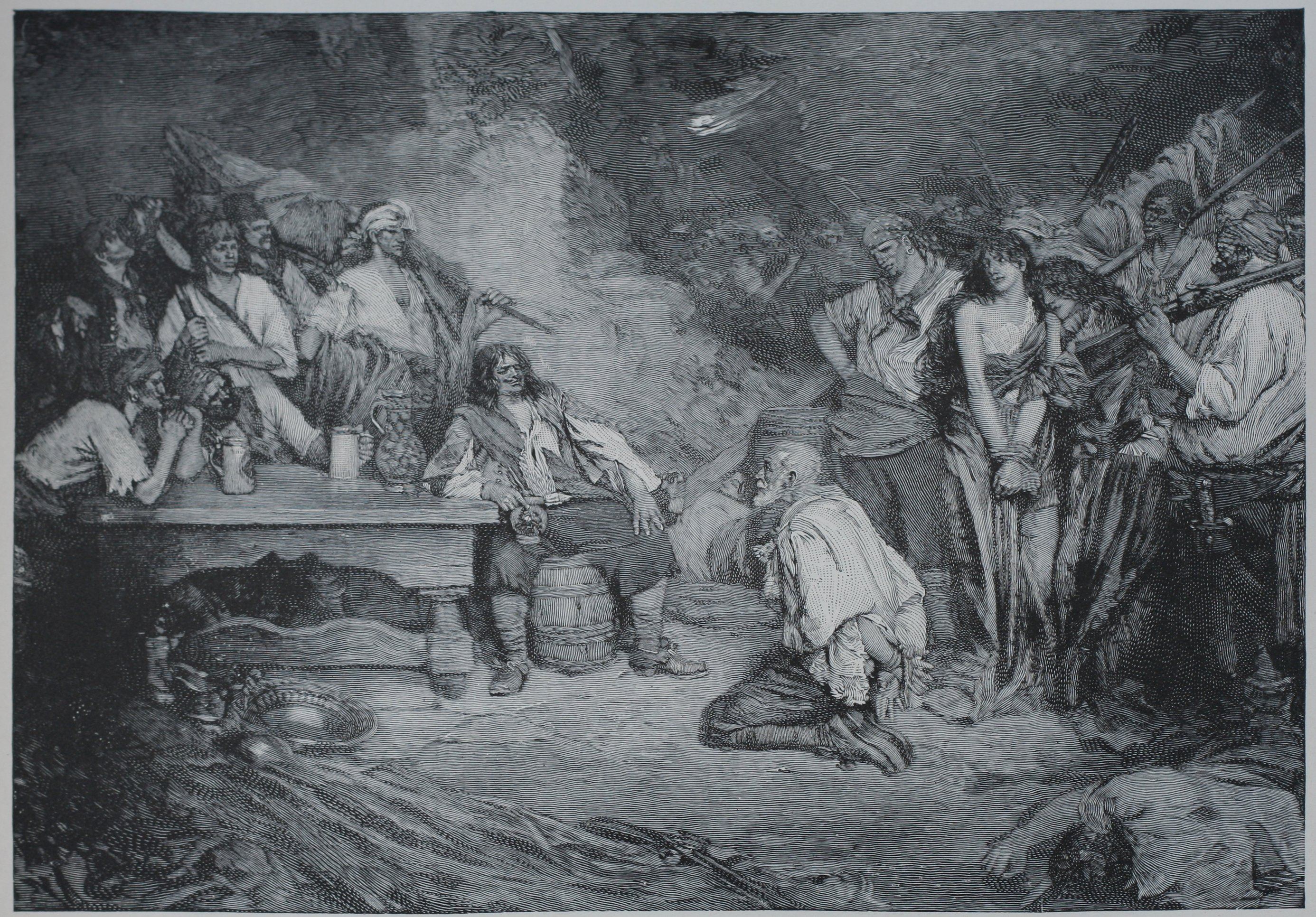 Morgan at Porto Bello: this was originally published in Pyle, Howard (December 1888). "Buccaneers and Marooners of the Spanish Main". Harper's Magazine.